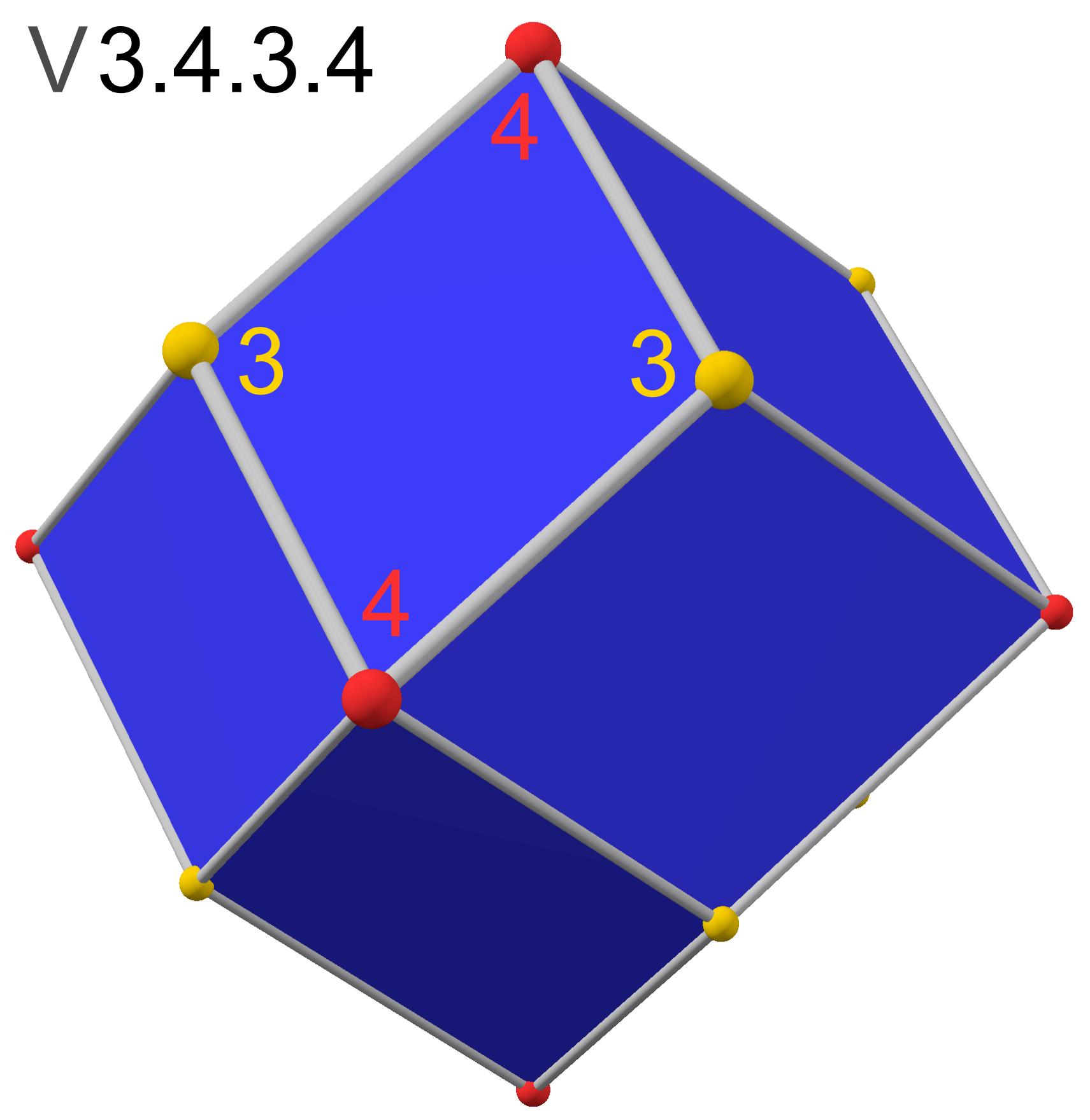 Image set Platonic, Archimedean and Catalan solids with direction colors Part of Polyhedra with direction colors (image set) This polyhedron has a form of octahedral symmetry. There are 12 blue elements. This set contains renderings of Platonic, Archimedean and Catalan solids. For most of them the sphere shown on the right is the polyhedrons midsphere. The geometric properties of these images have been calculated with Python, and they have been rendered with POV-Ray. The source code used can be found on GitHub. The POV-Ray sources are in this folder. This image was created with POV-Ray. This PNG graphic was created with Python. The images in this set have consistent sizes and angles. Please do not overwrite them. If this image has a margin, there is probably a variant without it — or it can be uploaded. (Filename with " max" at the end.)